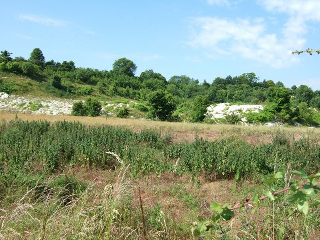 Totternhoe Chalk Quarry SSSI. This is part of the Totternhoe nature reserve, managed by the Wildlife Trust for Bedfordshire, Cambridgeshire and Northamptonshire, which also includes Totternhoe Knolls SSSI. There is a NT car park for Totternhoe Knolls and a circular walk. The walk is along well defined if rather rutty tracks. This is a view from the track that runs from SP985218 to SP980225 - at about the halfway point. The OS maps are not terribly helpful in this area, simply showing "Lime Pit" where this chalk bank exists. After checking with aerial photos and other map books I am pretty confident that I have identified the location correctly - but if anyone knows better, please let me know. See also 193753